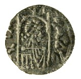 Childeric II.